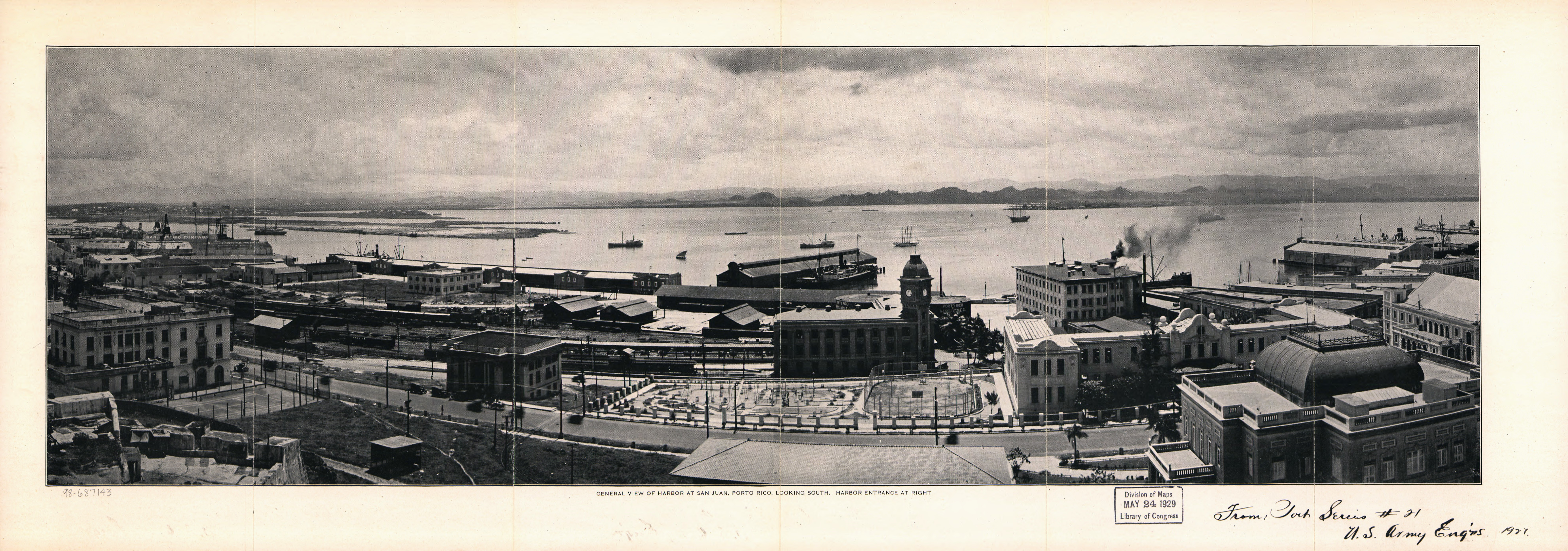 General view of harbor and former San Juan Railroad Terminal in the centre at San Juan, Porto Rico looking South.